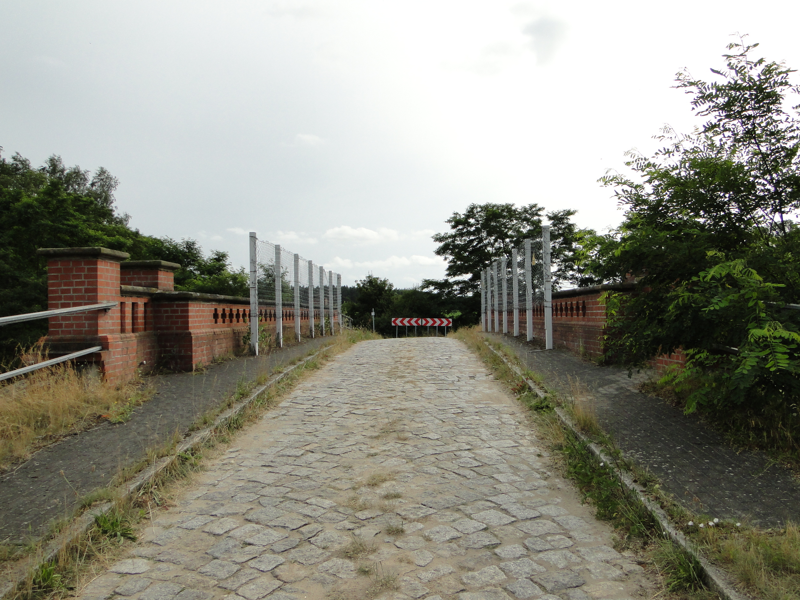 Löwenkopfbrücke (lion's head bridge) over the railway line Berlin-Hamburg near Streesow, disctrict Prignitz, Brandenburg, Germany